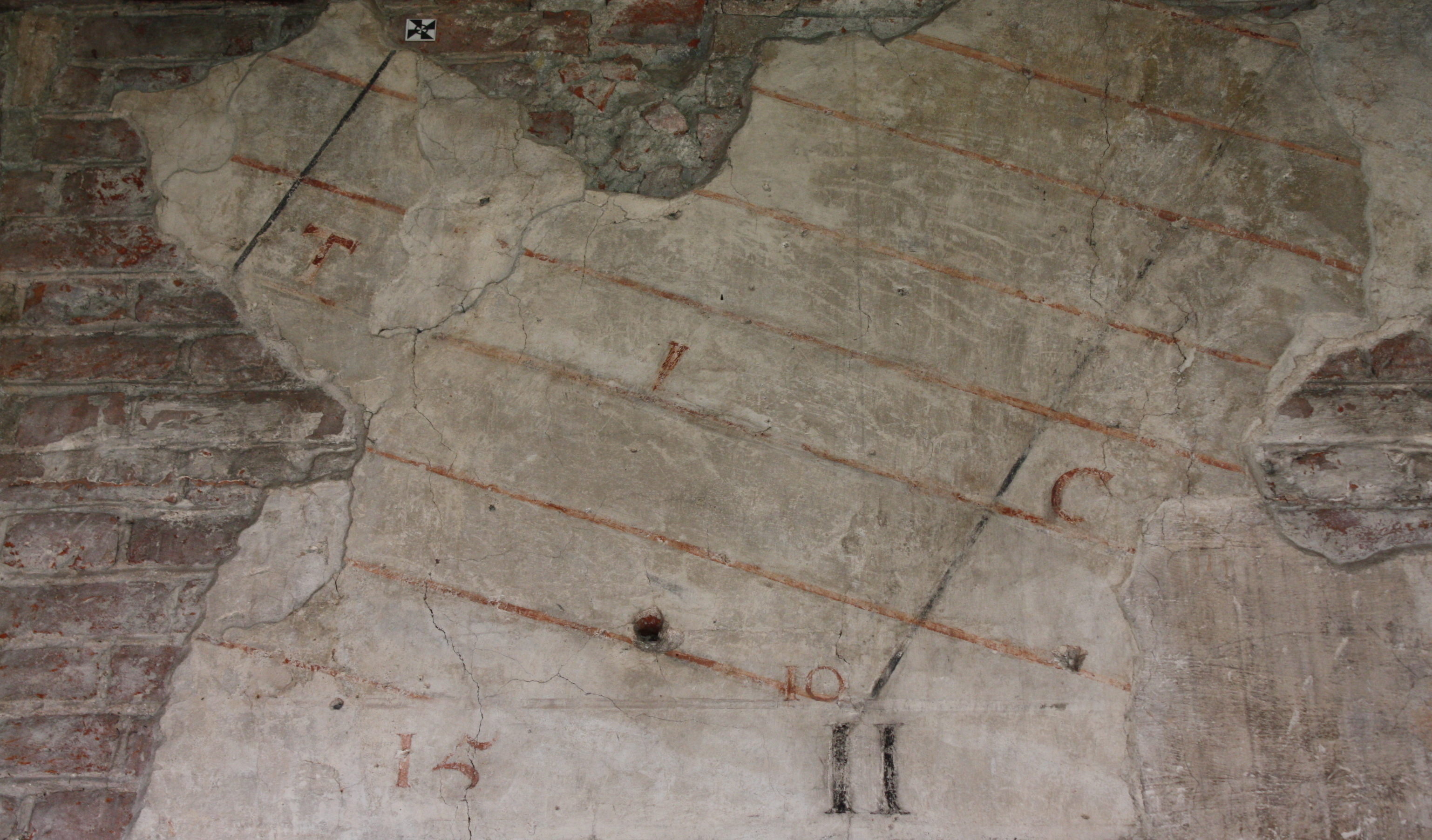 This photo of Warmian-Masurian Voivodeship was taken during Wikiexpedition 2012 set up by Wikimedia Polska Association. You can see all photographs in category Wikiekspedycja 2012. The making of this document was supported by Wikimedia Polska.